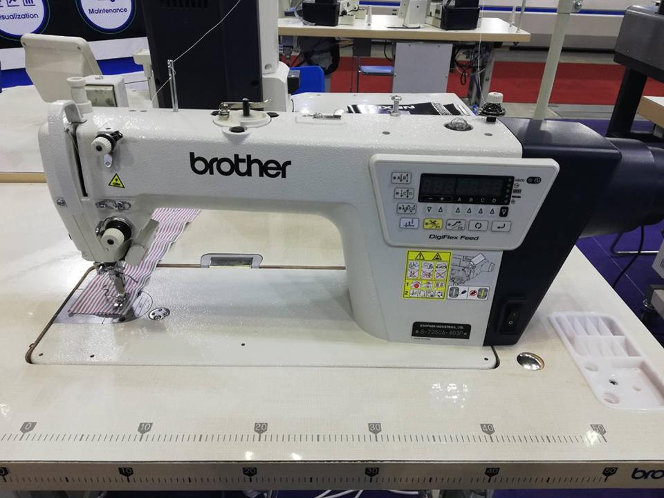 Brother latest lockstitch lockstitcher Nexio